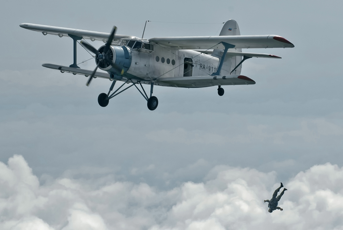 Skydiving from an Antonov An-2 (RA-01104) in Russia